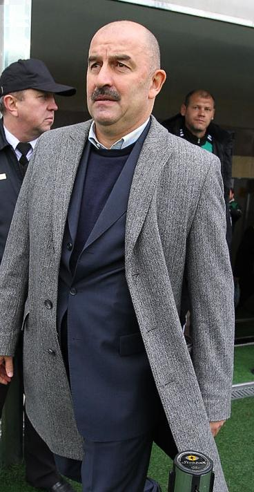 Stanislav Cherchesov coaching FC Terek Grozny in 2011.